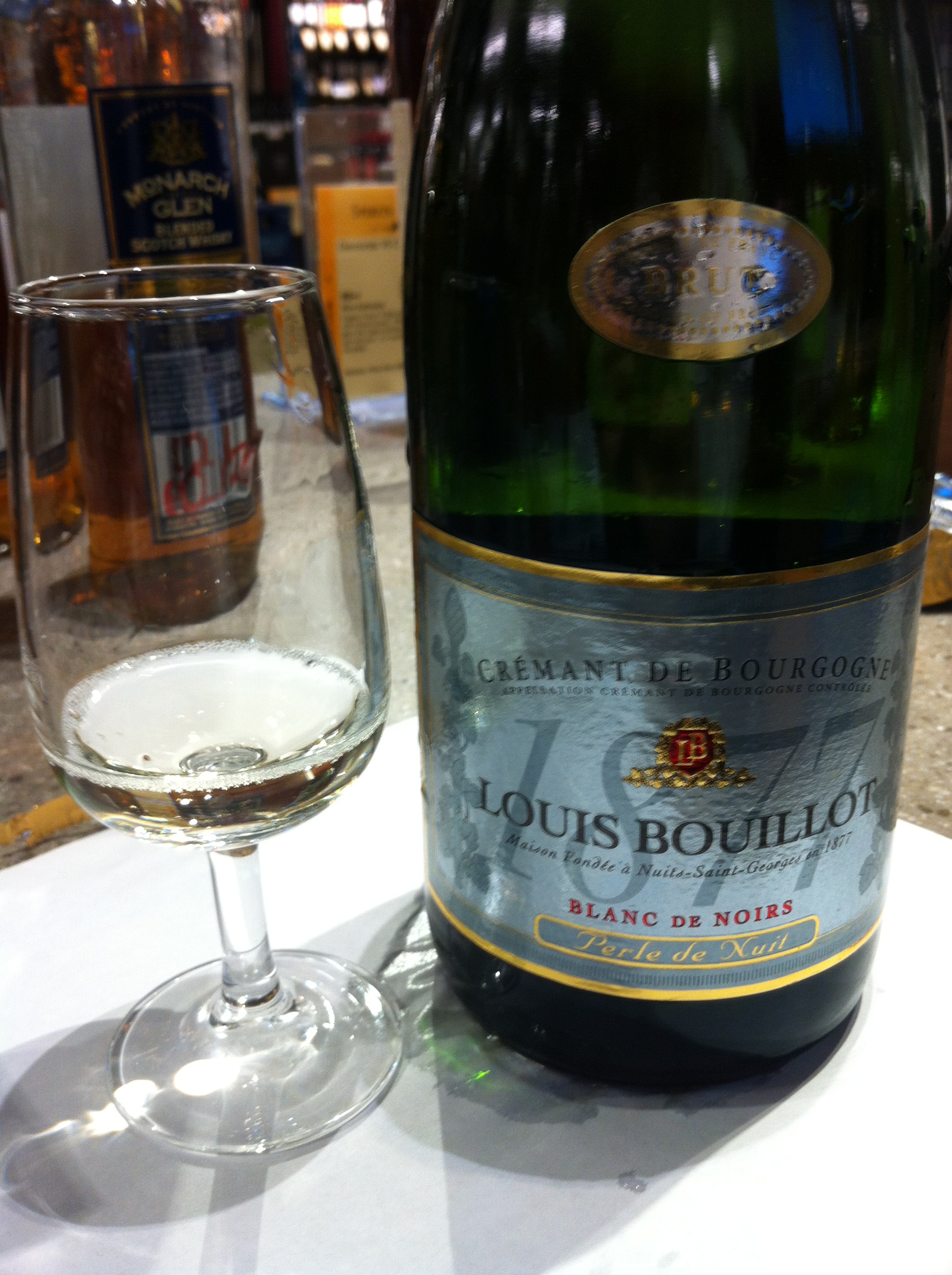 A French blanc de noirs sparkling wine made from the Burgundy region from Pinot noir and Gamay grapes